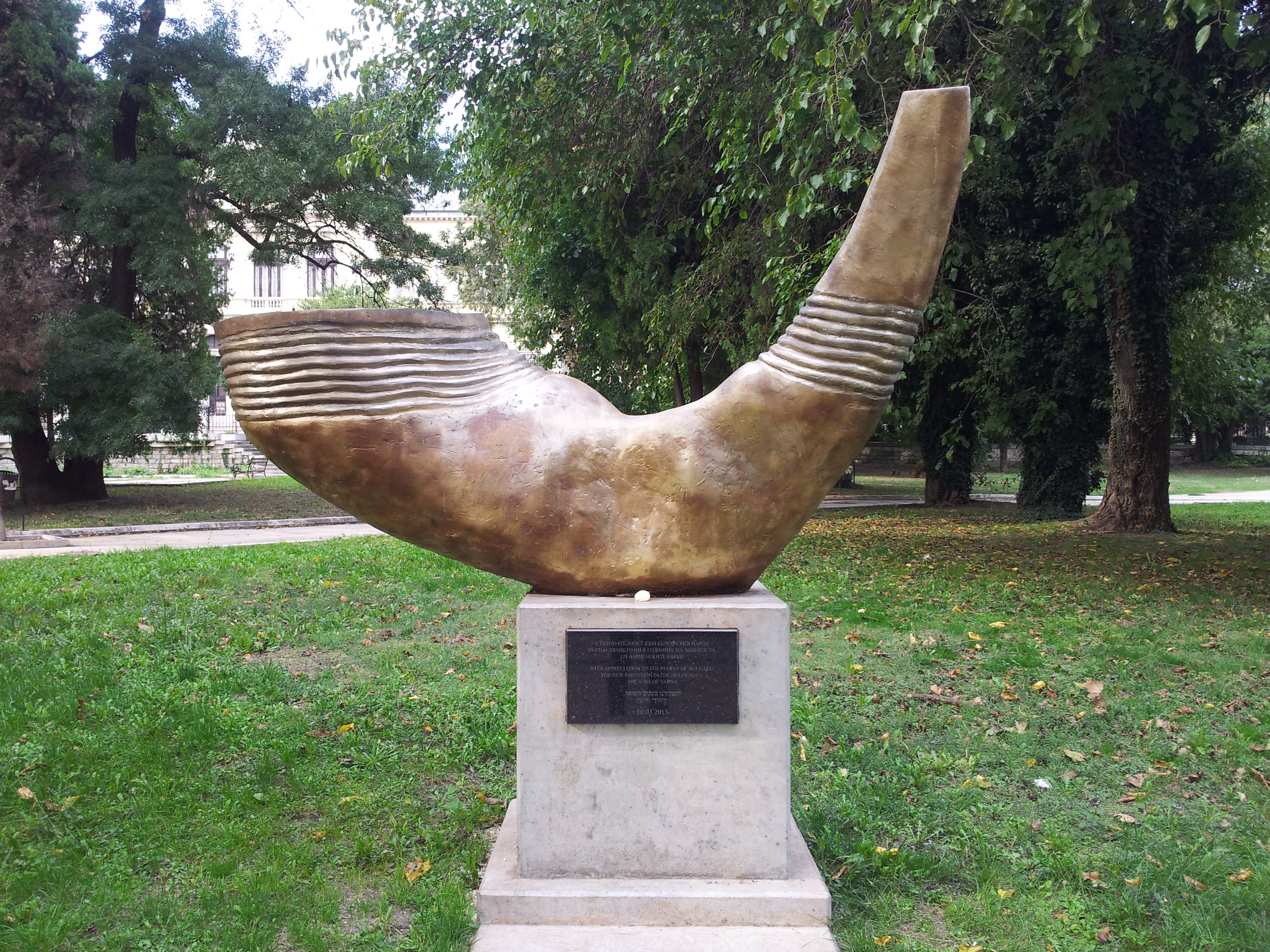 Memorial in the shape of a Shofar, made by the Jewish community of Varna, thanking the Bulgarian people for the saving of the Jews of Varna during the Holocaust.